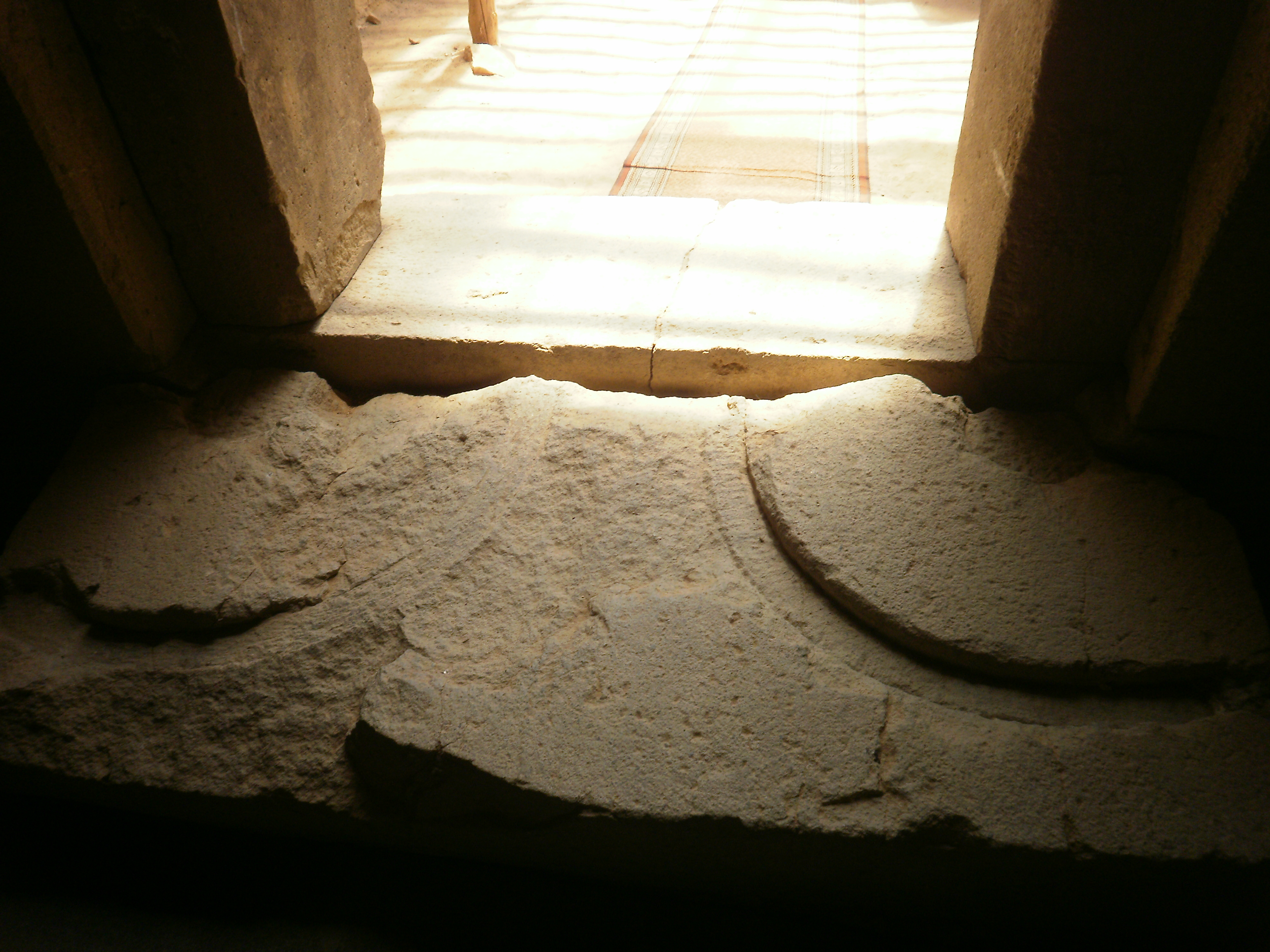 Thracian Tomb near Starosel, Bulgaria.